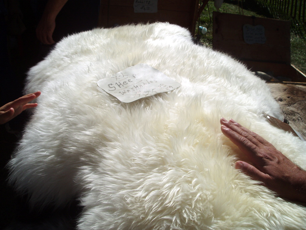 A whole sheepskin, washable.